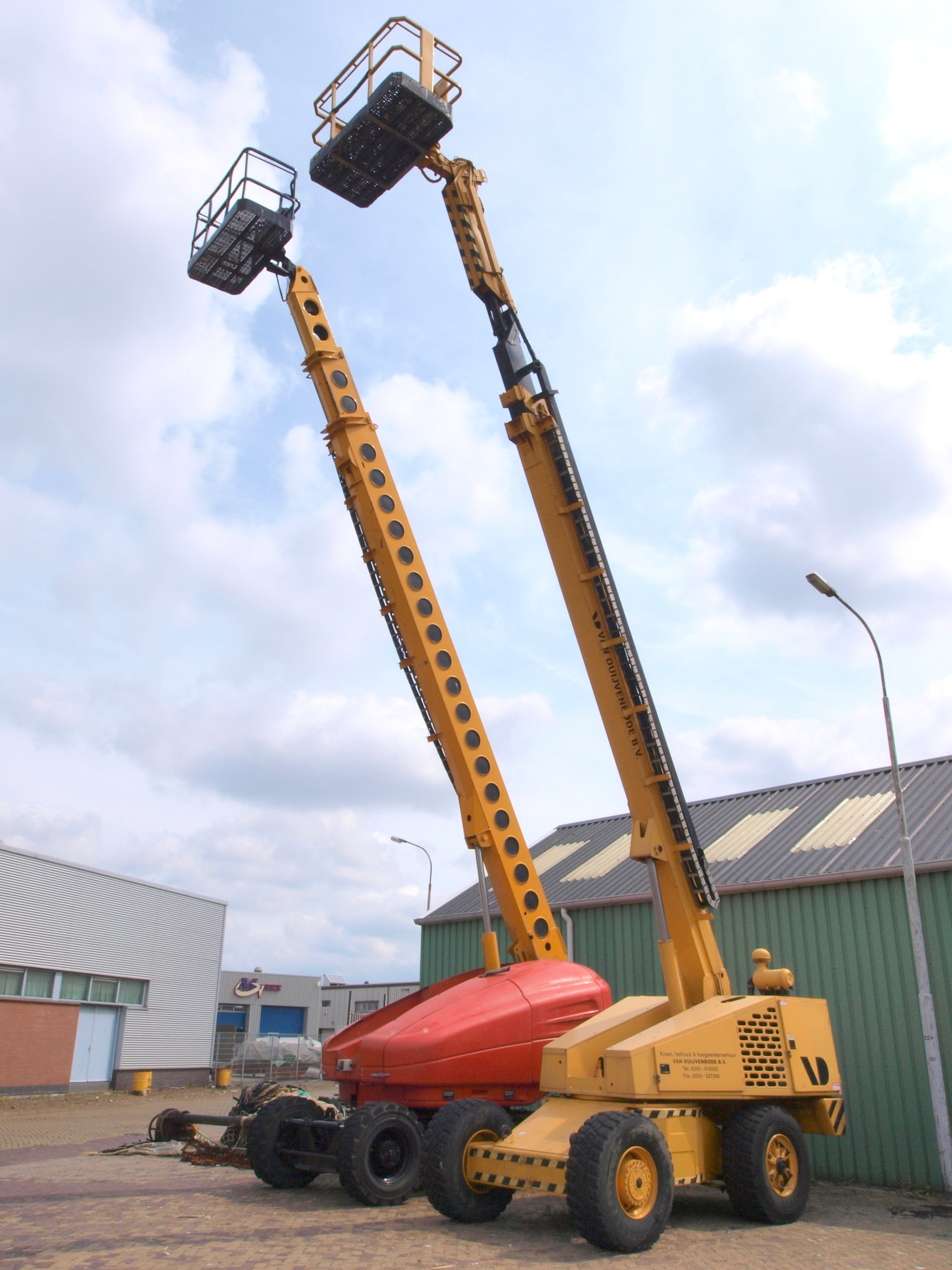 Grove cherry-pickers